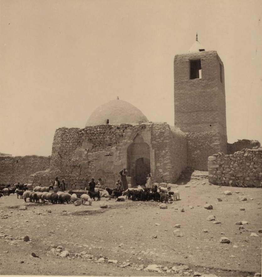 Part I. 1936. Syrian trip with Miss Clement and Miss Powell. May 19-26. Village of Breije between Damascus and Homs. LC-DIG-ppmsca-17412-00037 (digital file from original on page 23, no. 1034), 1936